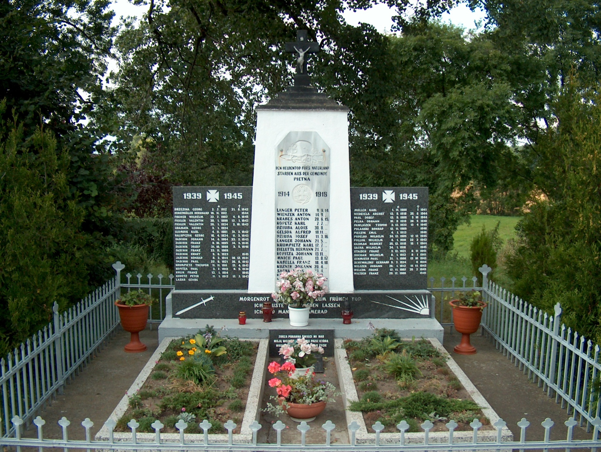 Roll of honour in Pietna